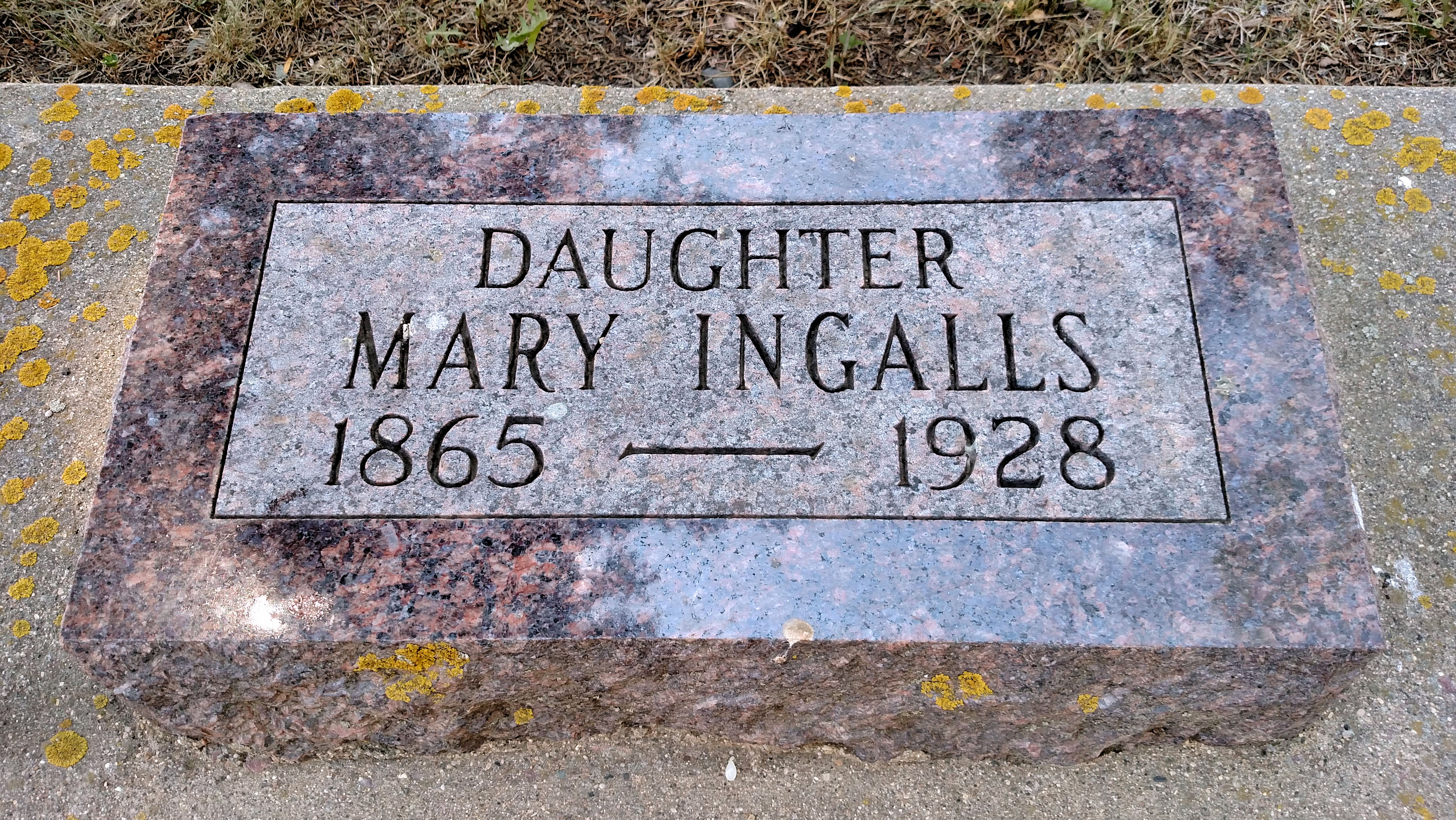 Headstone of Mary Amelia Ingalls, sister of Laura Ingalls Wilder, oldest daughter of Charles and Caroline Ingalls - located in family plot at De Smet Cemetery in South Dakota.